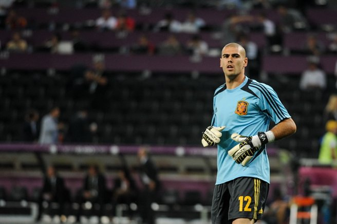 Víctor Valdés before Euro 2012 match Spain-France